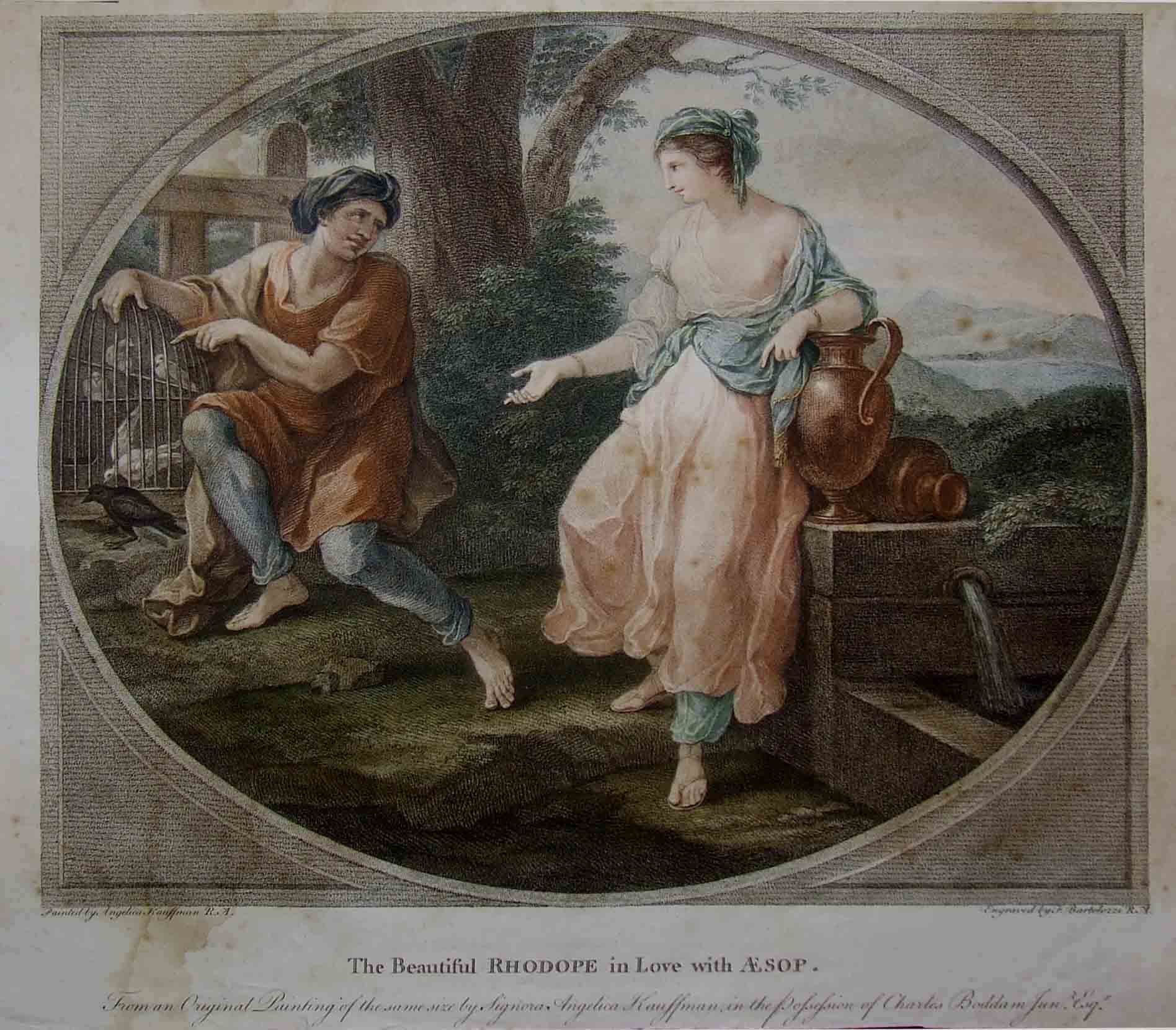 The beautiful Rhodope in love with Aesop. Engraved by Francesco Bartolozzi after a painting by Angelica Kauffmann